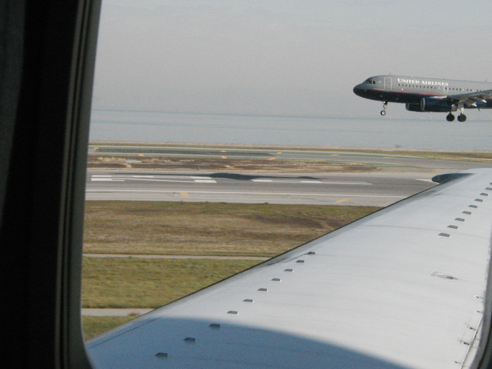 Tandem Landing: 2 united airlines planes landing at same time at SFO. Yikes!